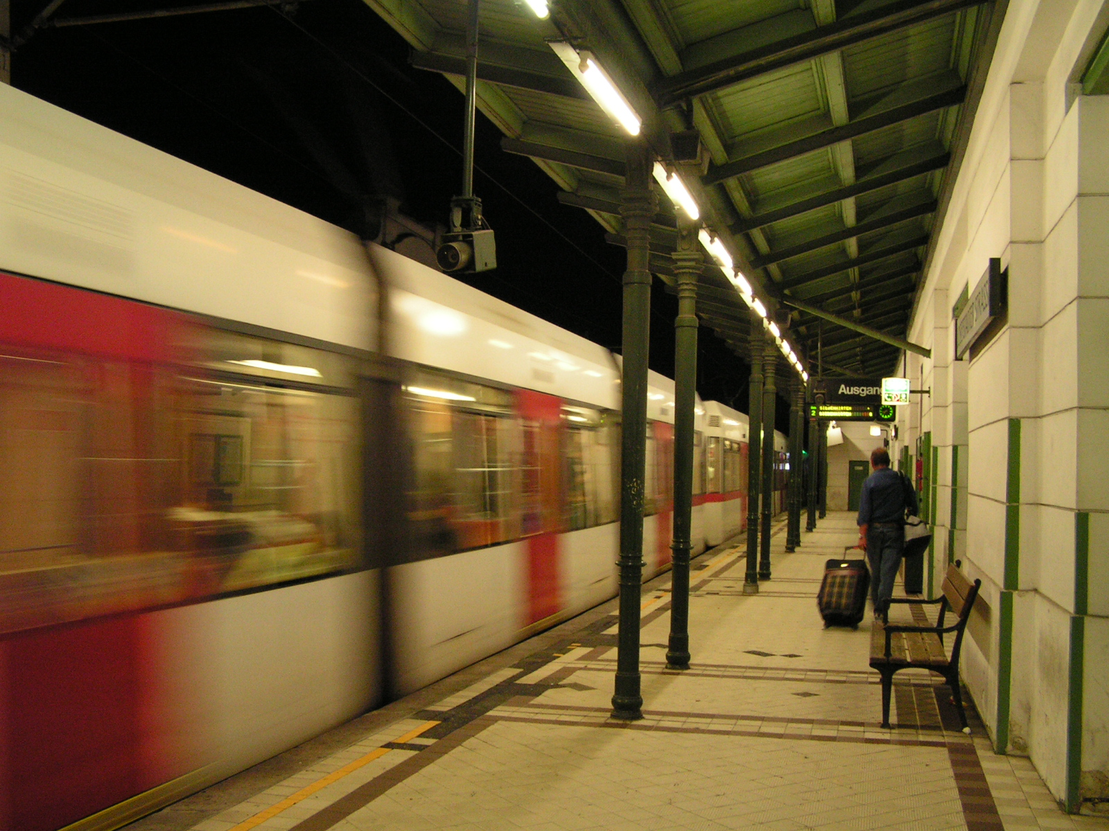 Josefstaedter Strasse U-Bahn station, Vienna, Austria: vintage architecture and modern train.